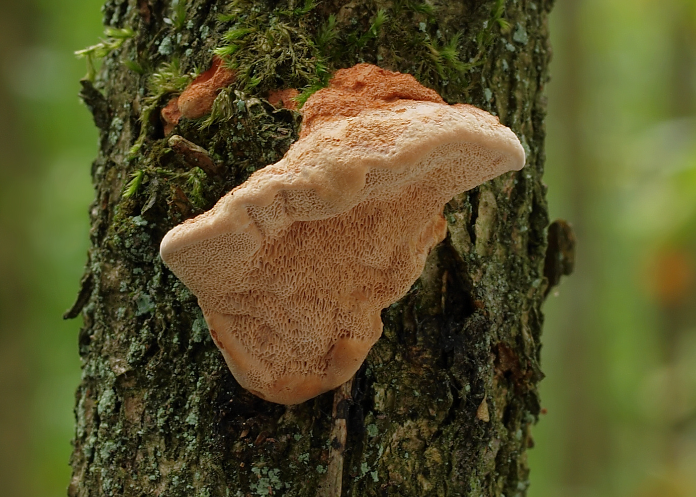 Cinnamon Bracket (Hapalopilus nidulans) on a thin, dead, but standig stem of an oak